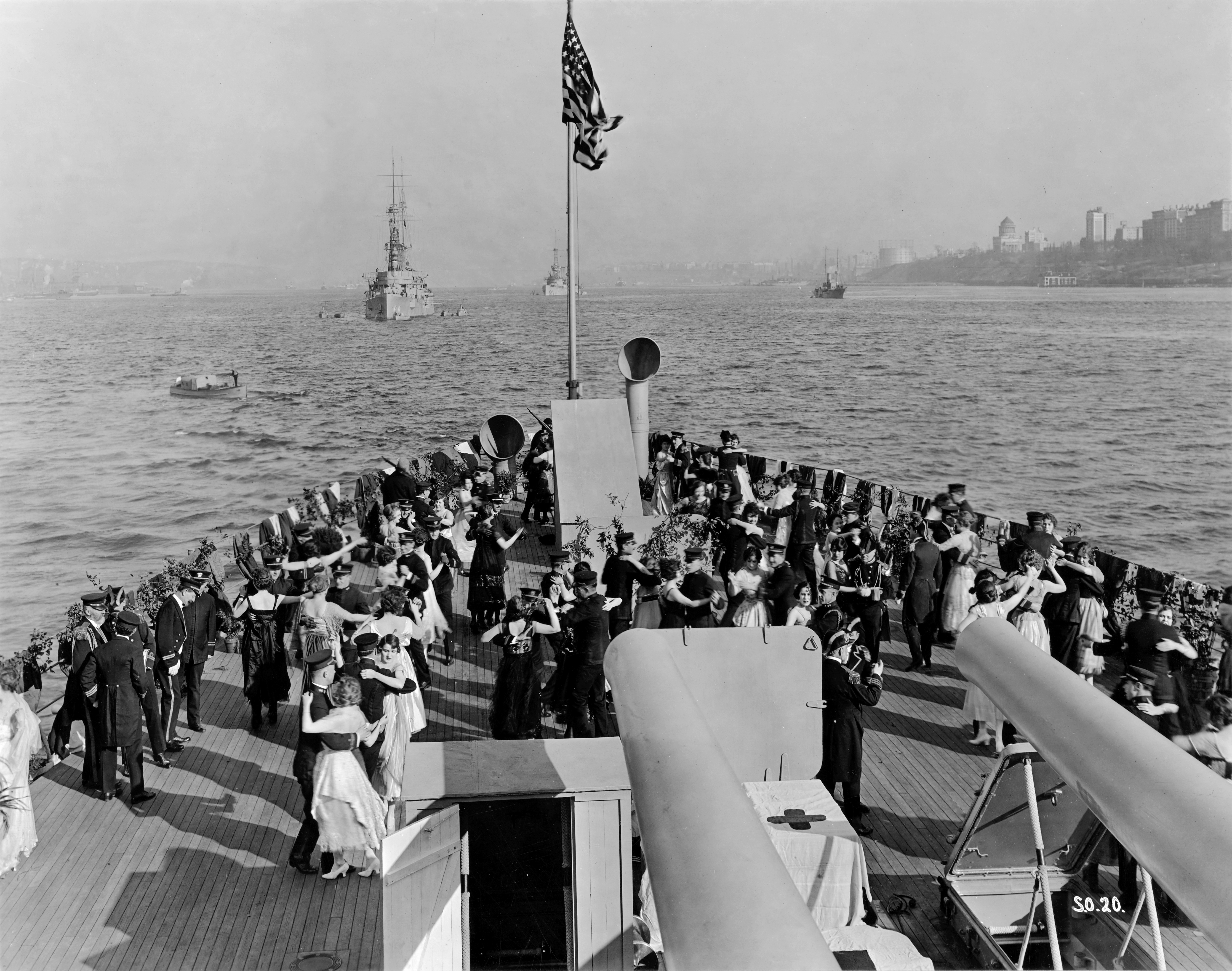 Promotional still from the 1918 film Stolen Orders